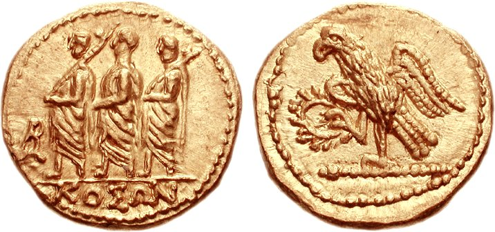 A gold stater coin (weighing 8.31 g) from Geto-Dacian Scythia (modern-day Transylvania), dating from the mid-first century B.C. The obverse side of the coin, shown on the left, depicts a Roman consul accompanied by two lictors, with a monogram to the left and underneath the name ΚΟΣΩΝ, the king under whom this coin was minted. This is now thought to be the Geto-Dacian king Coson. The coin's reverse side, shown on the right, depicts an eagle standing on a scepter and holding a wreath.